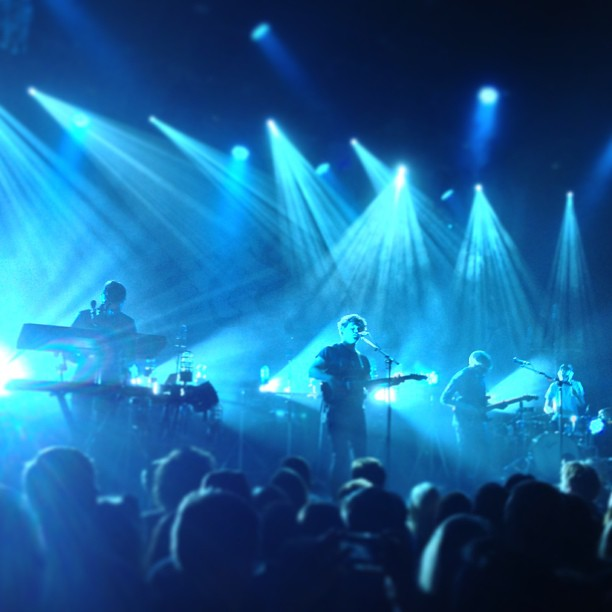 Alt-J performing April 2013 at The Fillmore